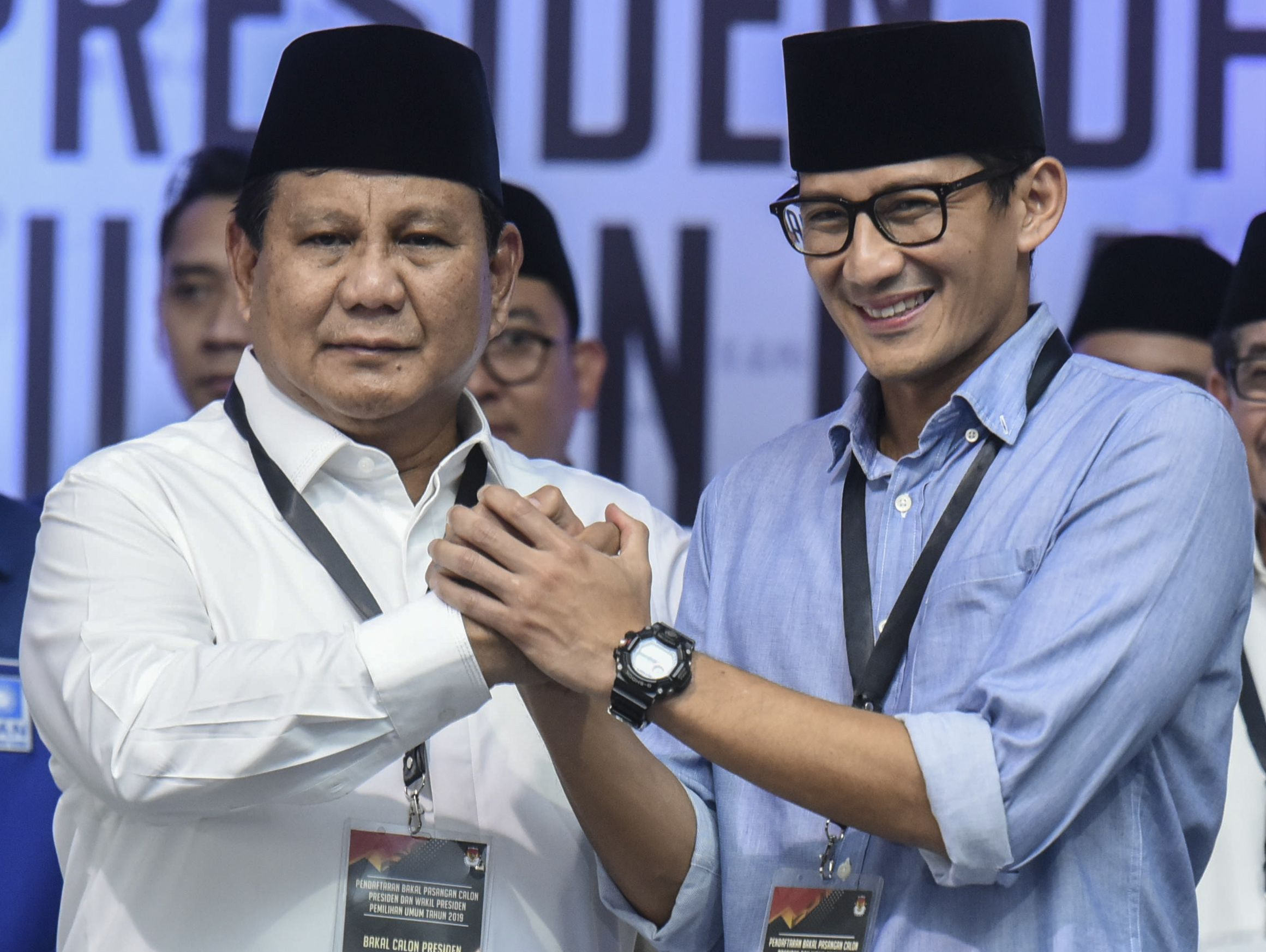 Portrait of Prabowo Subianto and Sandiaga Uno.